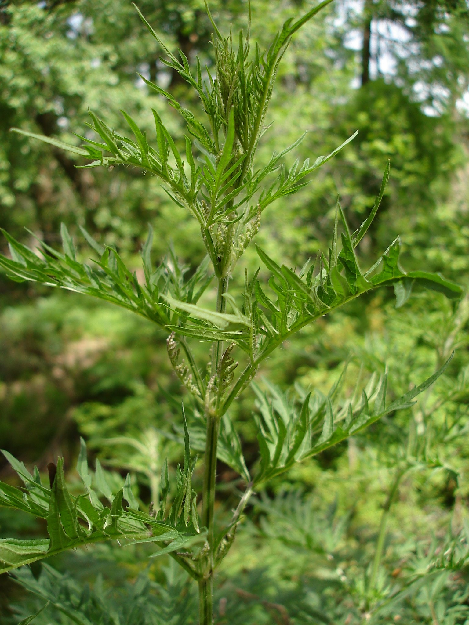 Urtica cannabina. Orkhon river, Mongolia.